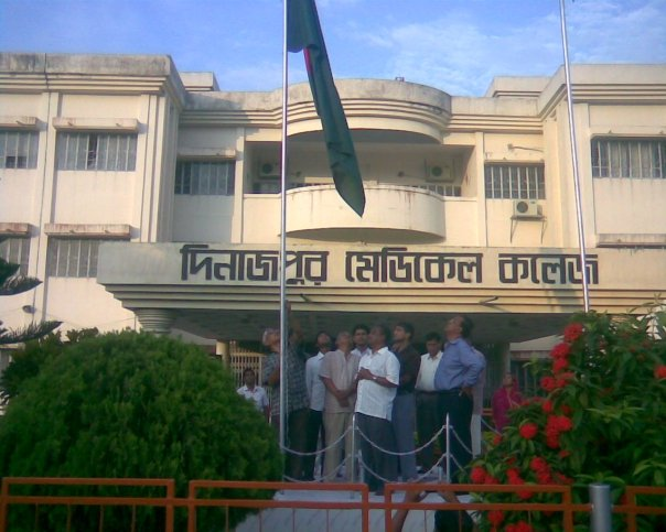 Dinajpur medical college